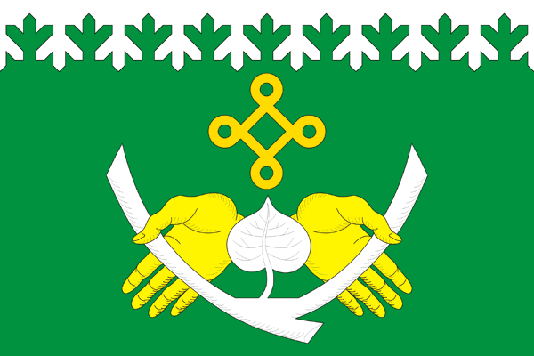 Flag of Kostomuksha, Karelia, Russia